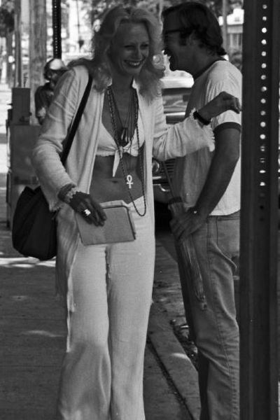 American actress Sylvia Miles on Duval Street, in Key West, Florida during the filming of 92 in the Shade in November 1974. Photo by Cory McDonald with Nikkormat 35mm.